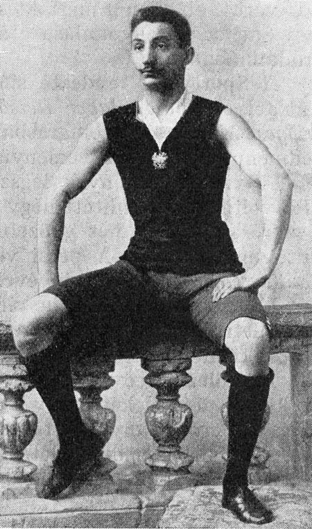 László Gerentsér (1873-1942), Hungarian fencing master; in 1897 he won silver in 100 yard sprint at the 2nd Hungarian Athletic Championship